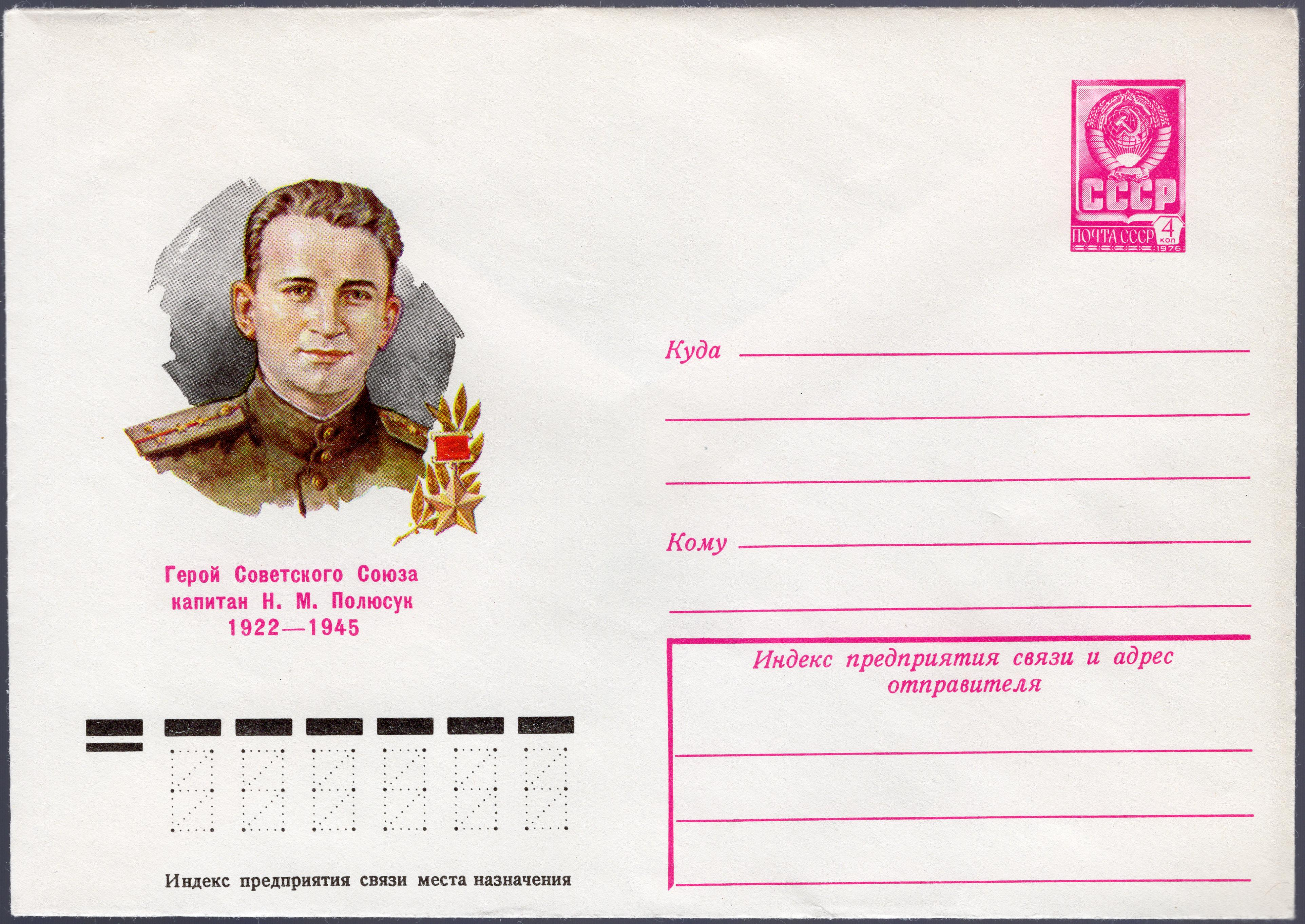 Hero of the Soviet Union Captain Natan Polyusuk. 1922-1945. Series: Heroes of the Soviet Union.